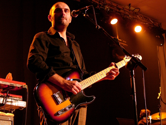 Majorcan singer-songwriter Joan Miquel Oliver playing lead guitar live with Antònia Font in Sueca